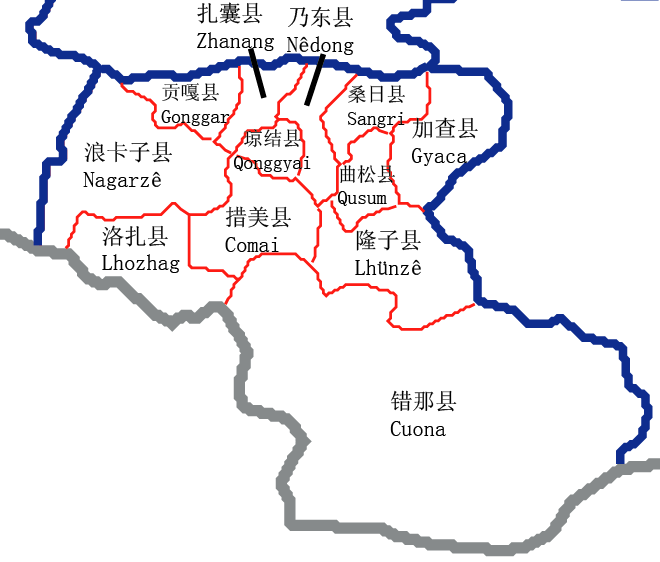 Counties in Shannan City (山南市), Tibet Autonomous Region of China